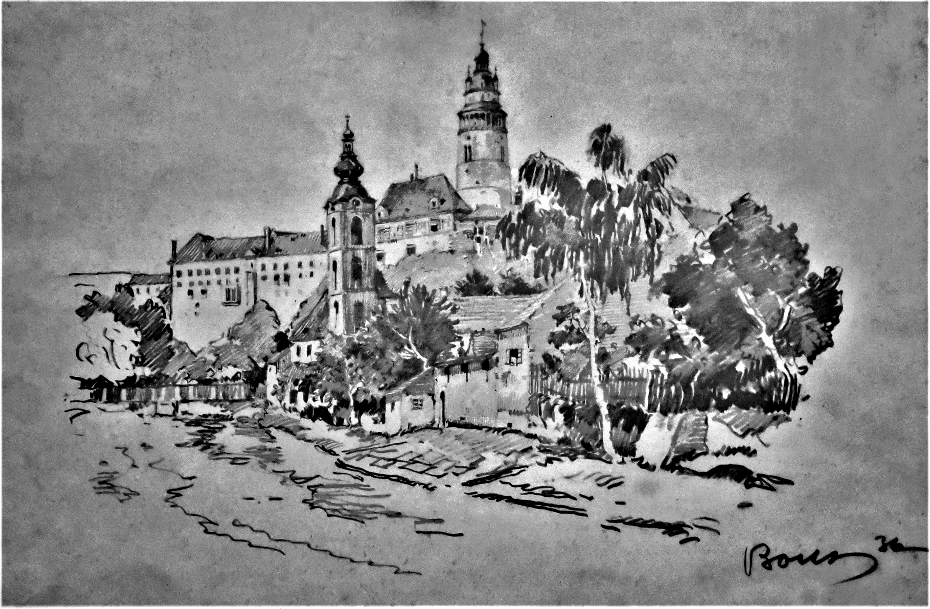 Český Krumlov (1936), by Julius Bous (1878-1944)